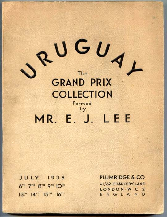 Auction Catalogue of the E.J. Lee Uruguay collection, Plumridge 1936.